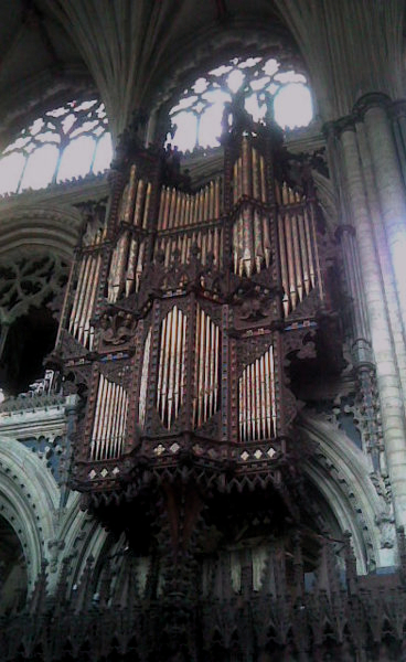 The pipes of the magnificent organ at Ely Cathedral, Ely, Cambridgeshire, UK